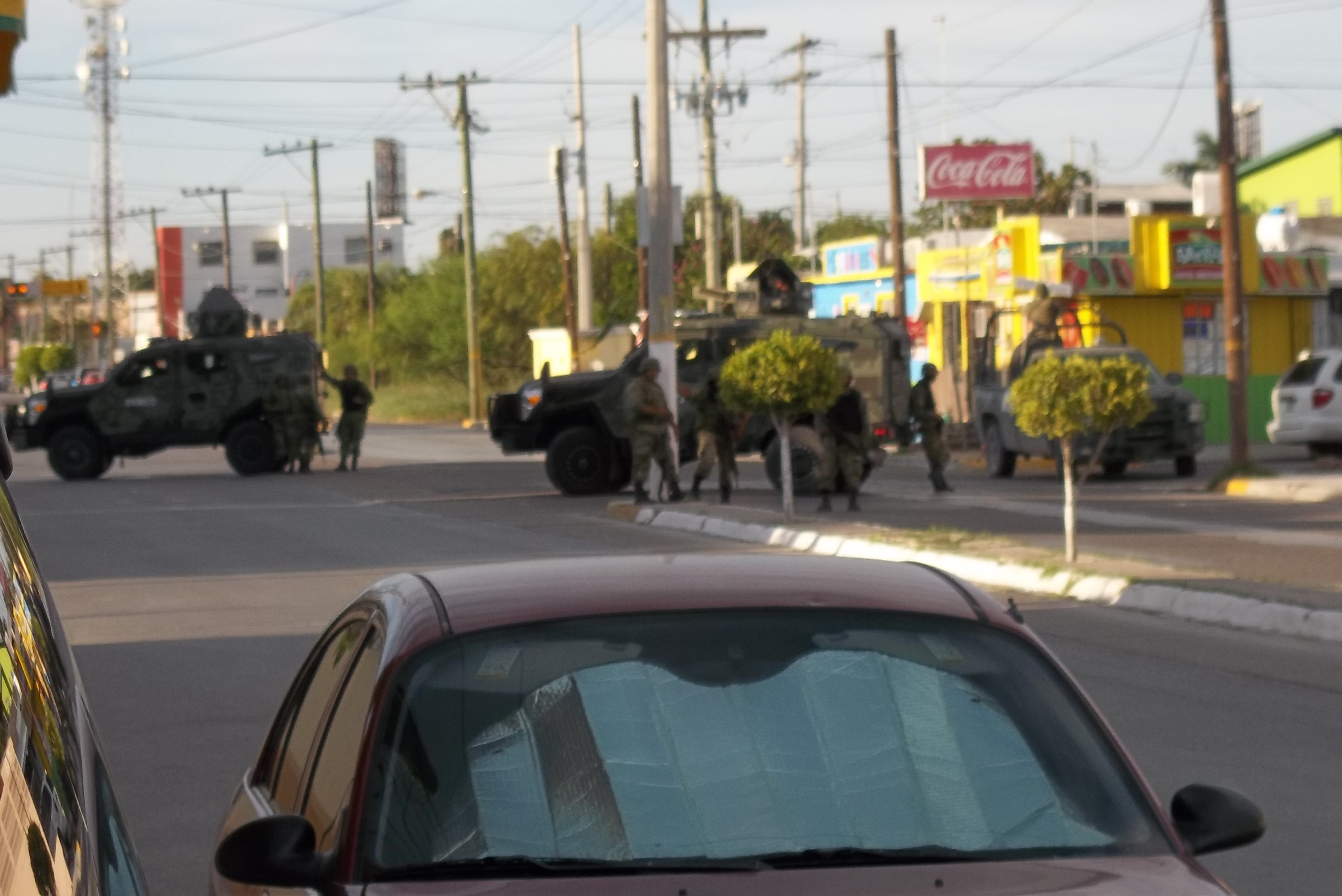 The Mexican military raids a house in the border city of Matamoros, Tamaulipas on 25 June 2012. Reportedly, neighbors indicated that the house was owned by a Gulf Cartel drug trafficker.